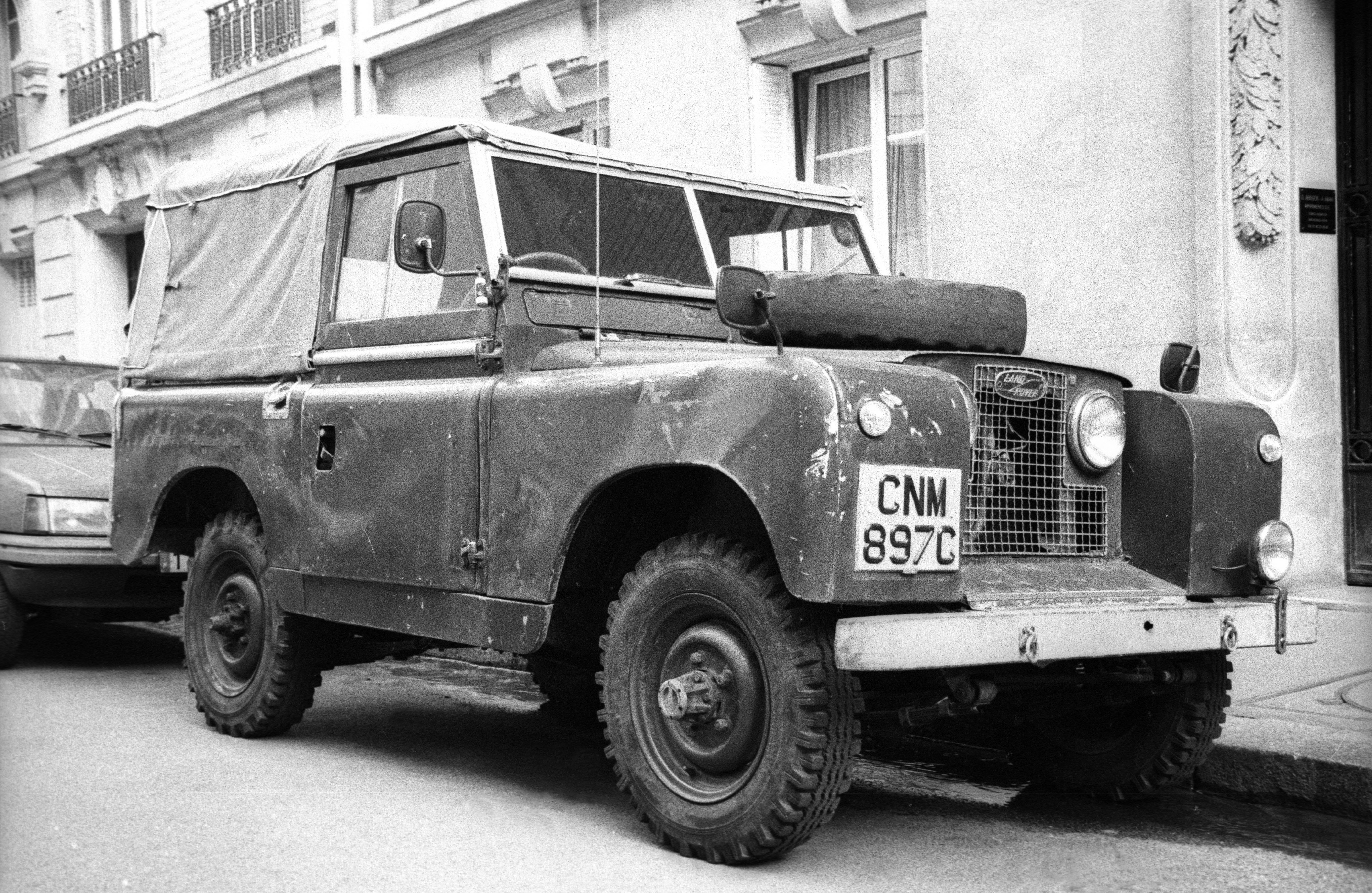 A Land Rover Series II in a street of Paris. Author : Cyril Barbaz